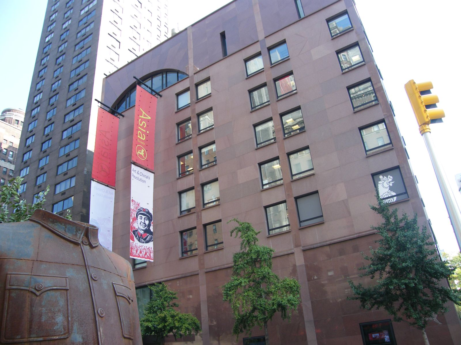 Asia Society